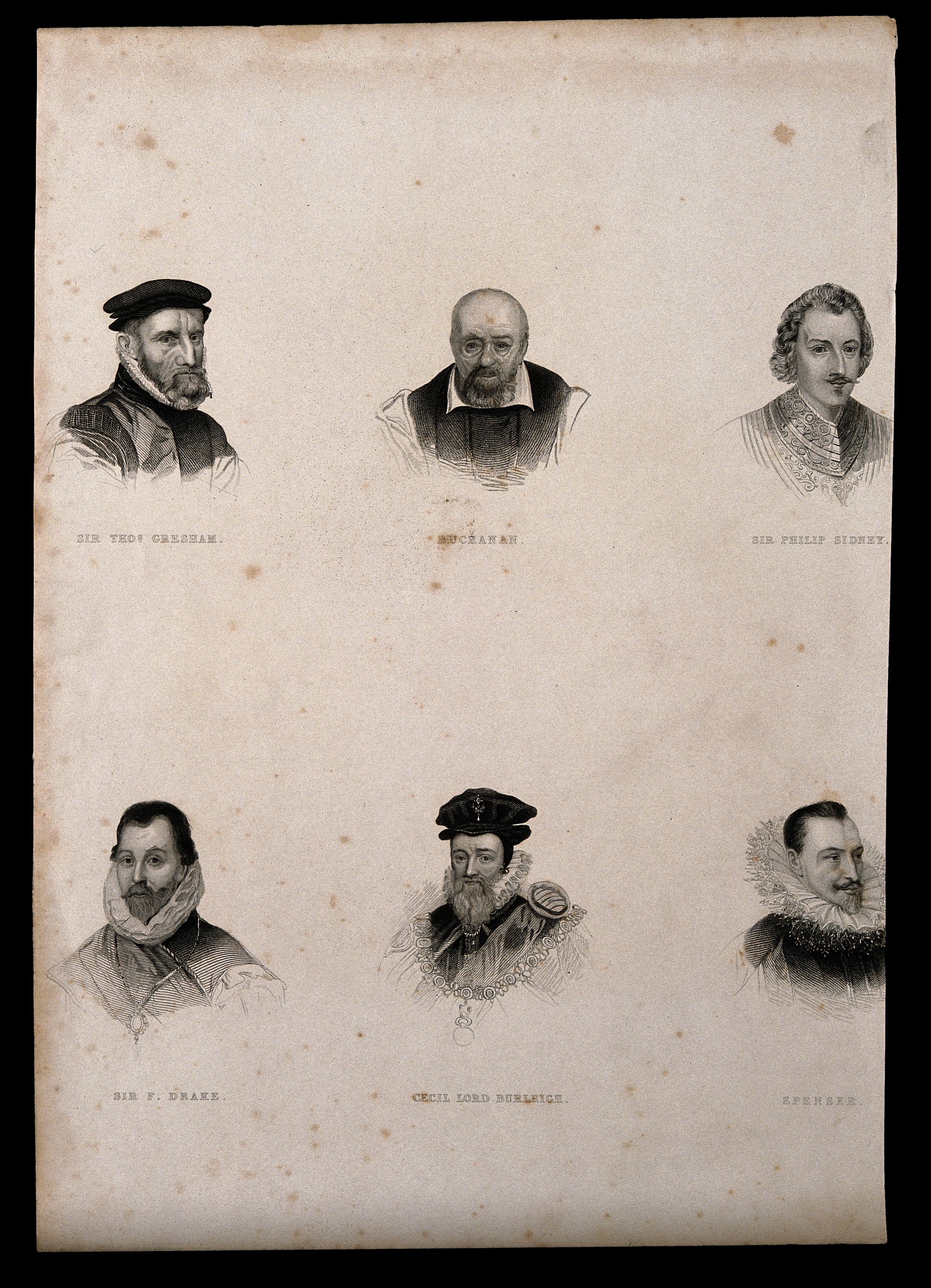 Six portraits of eminent sixteenth century men. Engraving. 1: Thomas Gresham, Buchanan, Sir Philip Sidney 2: Sir F. Drake, Cecil Lord Burleigh, Spenser Iconographic Collections Keywords: Philip Sidney; Thomas Gresham; Edmund Spenser; George Buchanan; Francis Drake; William Cecil